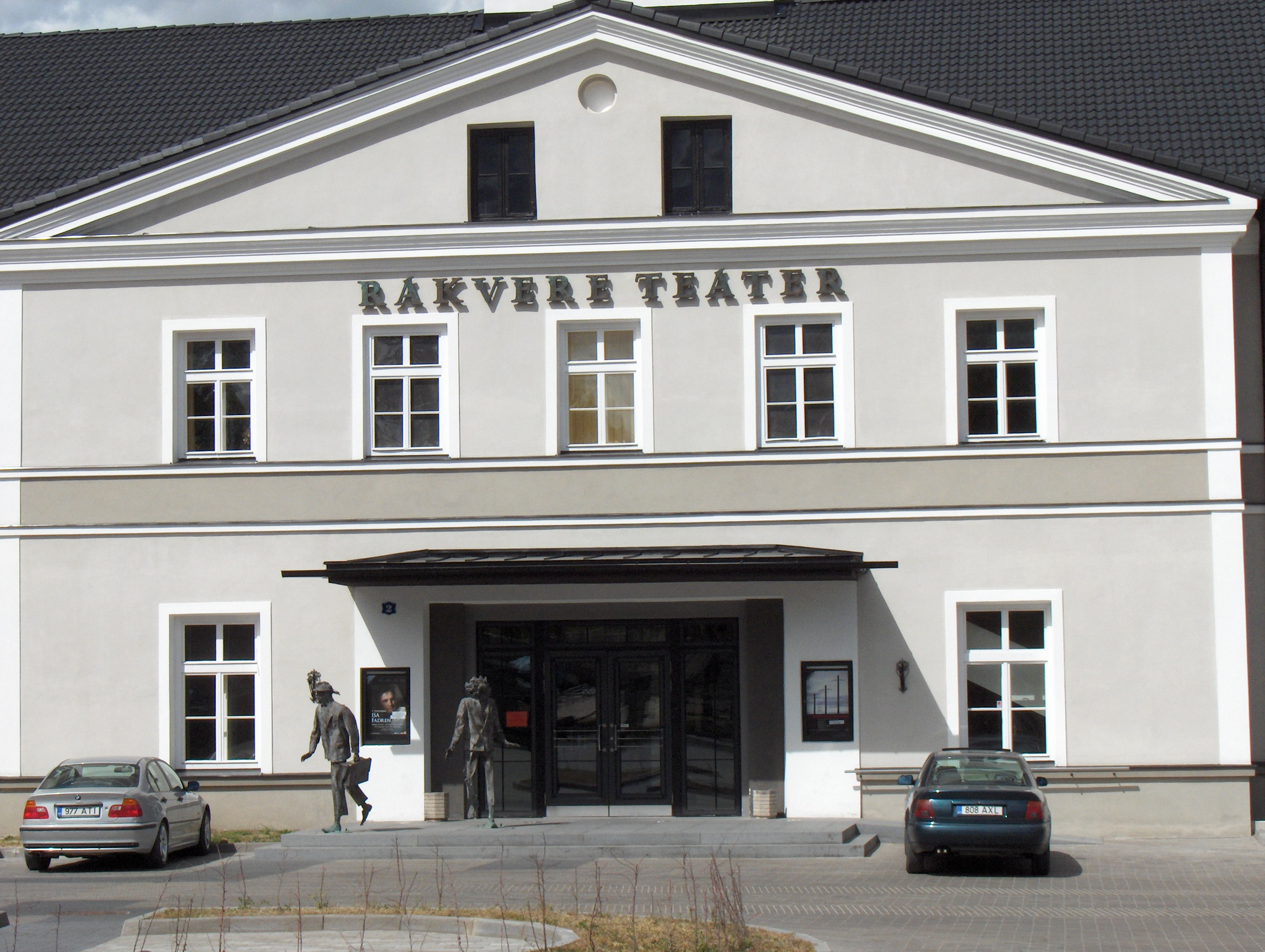 Rakvere teatri linnapoolne vaade